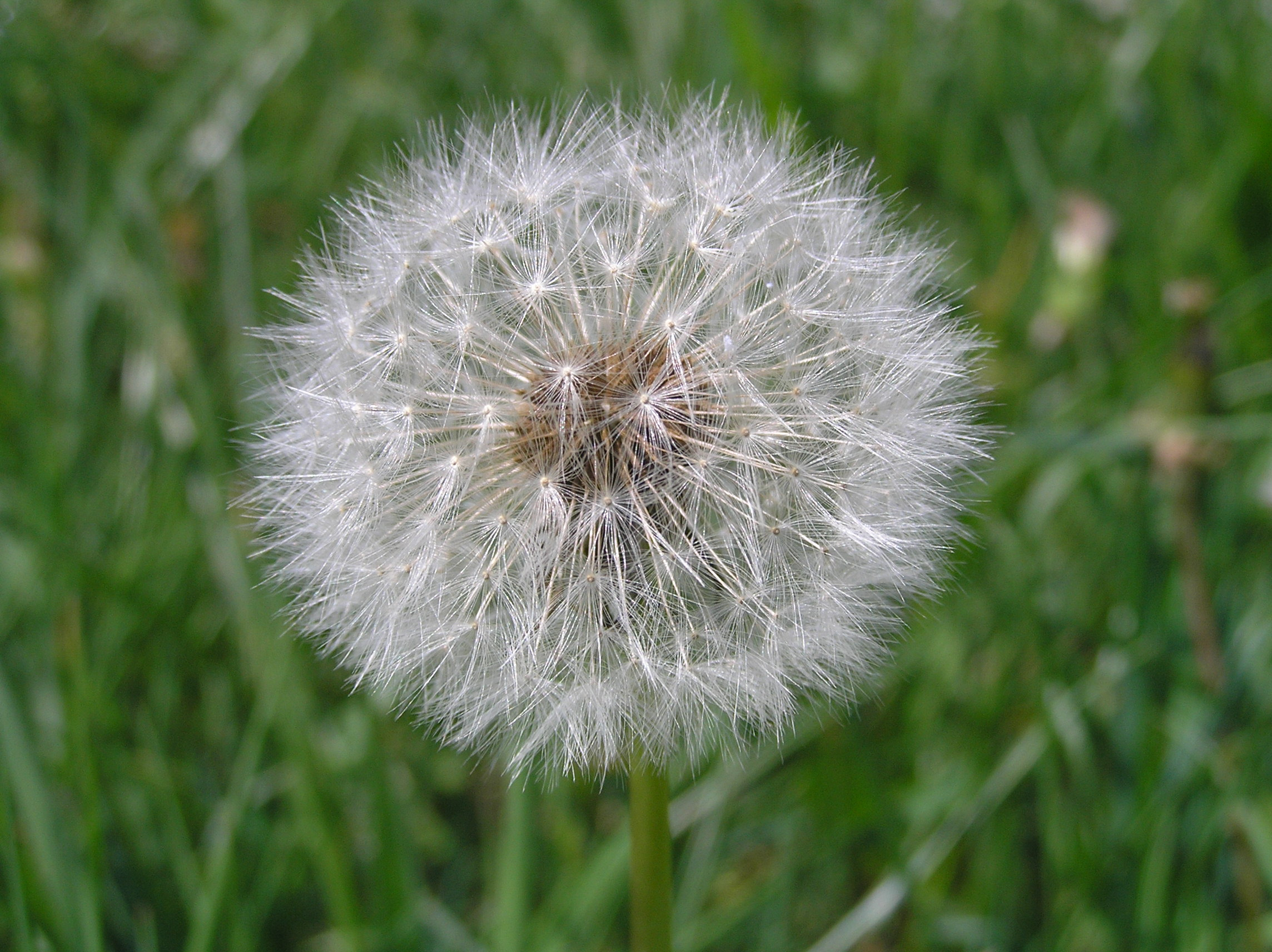 Dandelion